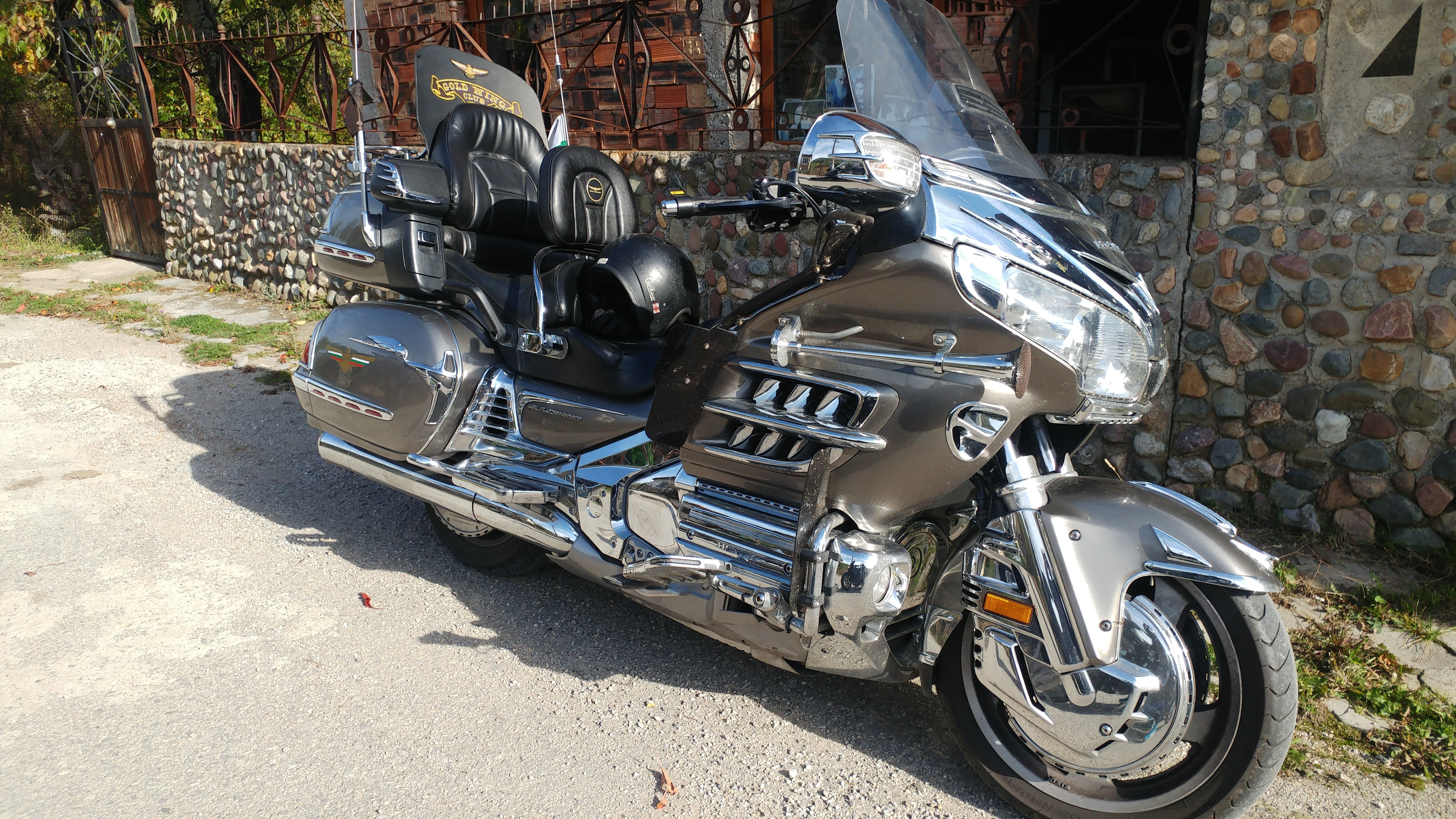 Honda Gold Wing 1800